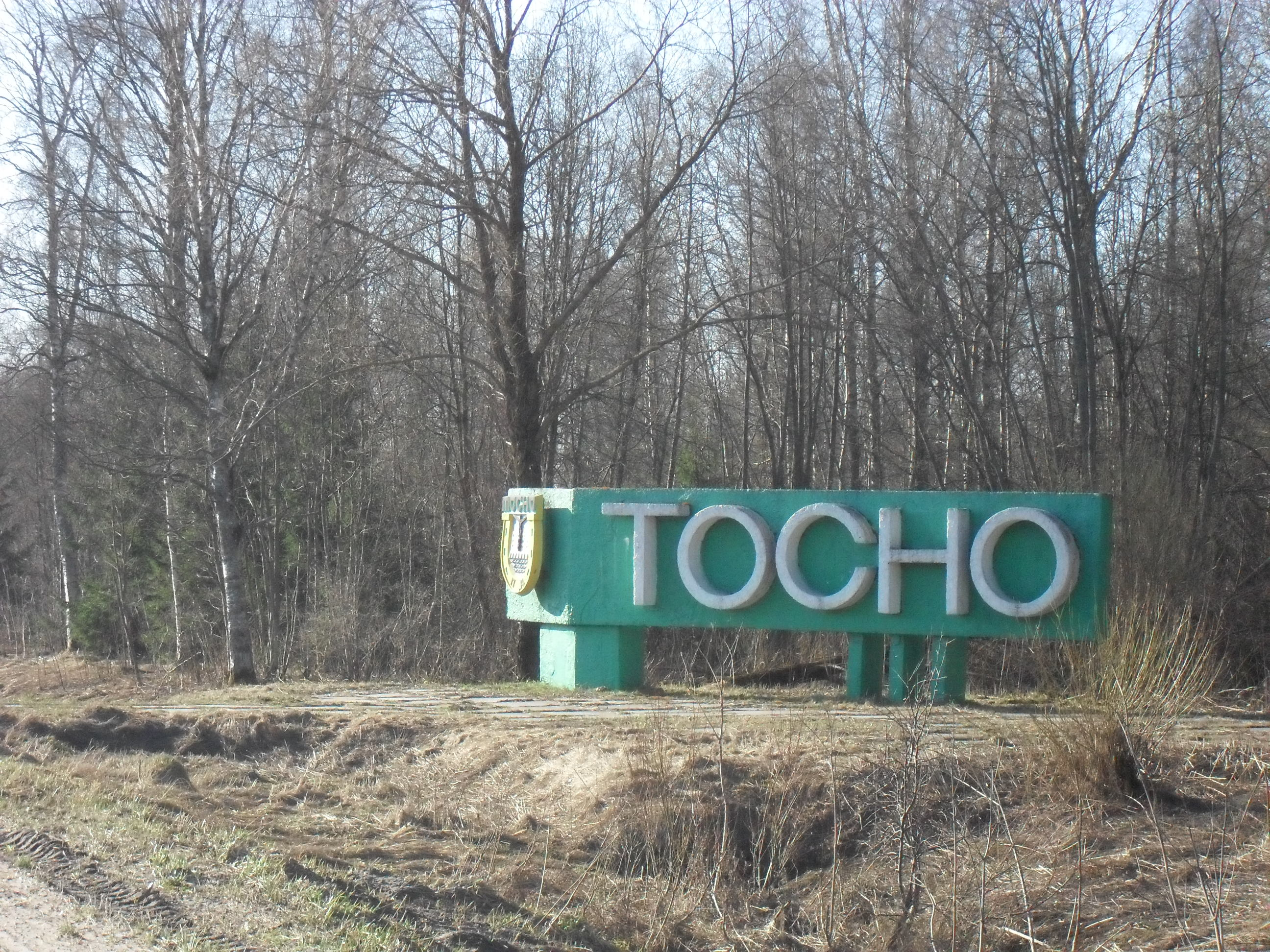 Entrance from the North on the Saint Petersburg - Moscow highway European route E105